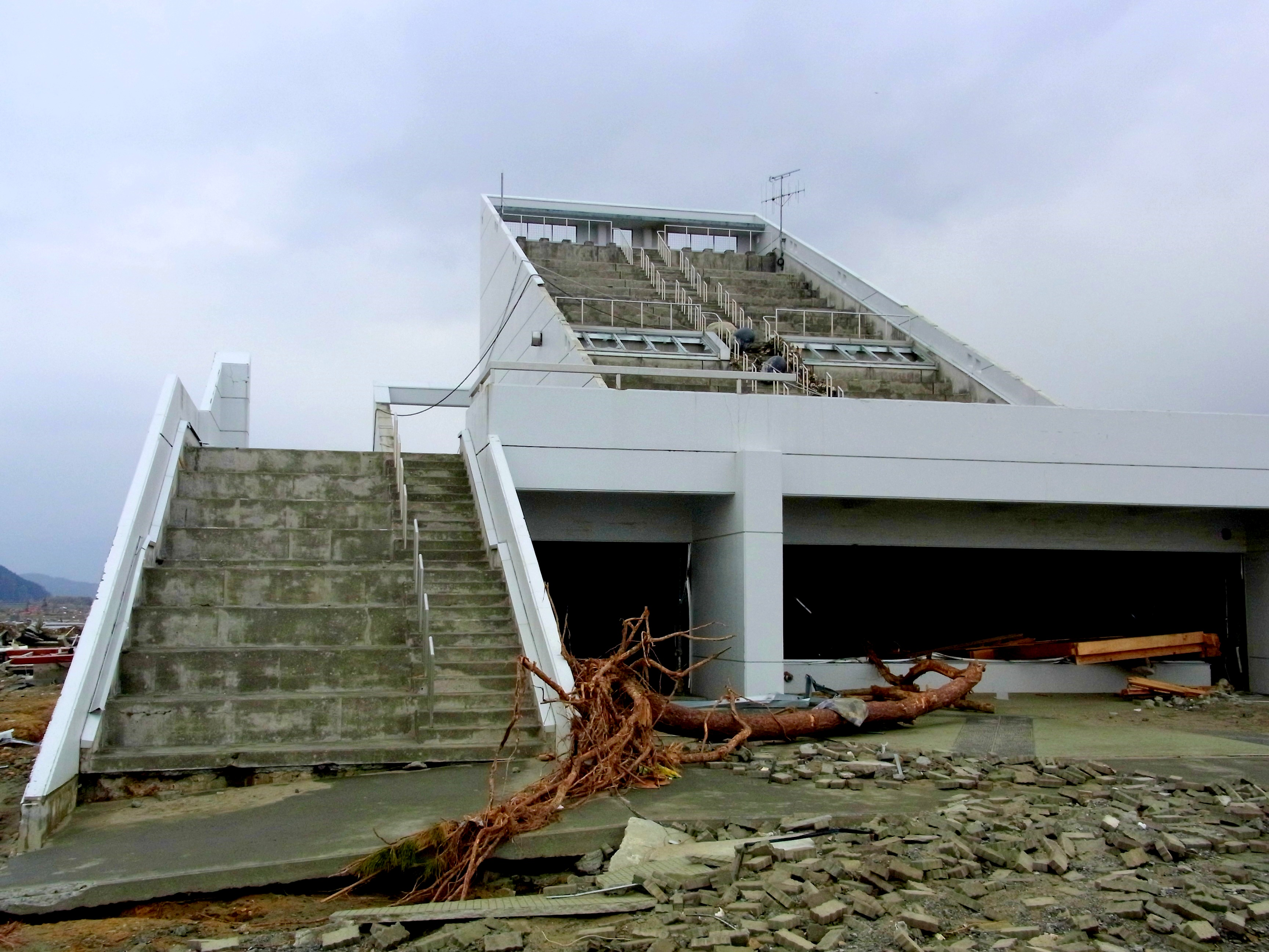 A Roadside Station of Takata-Matsubara, Rikuzentakata, Iwate, after the tsunami.